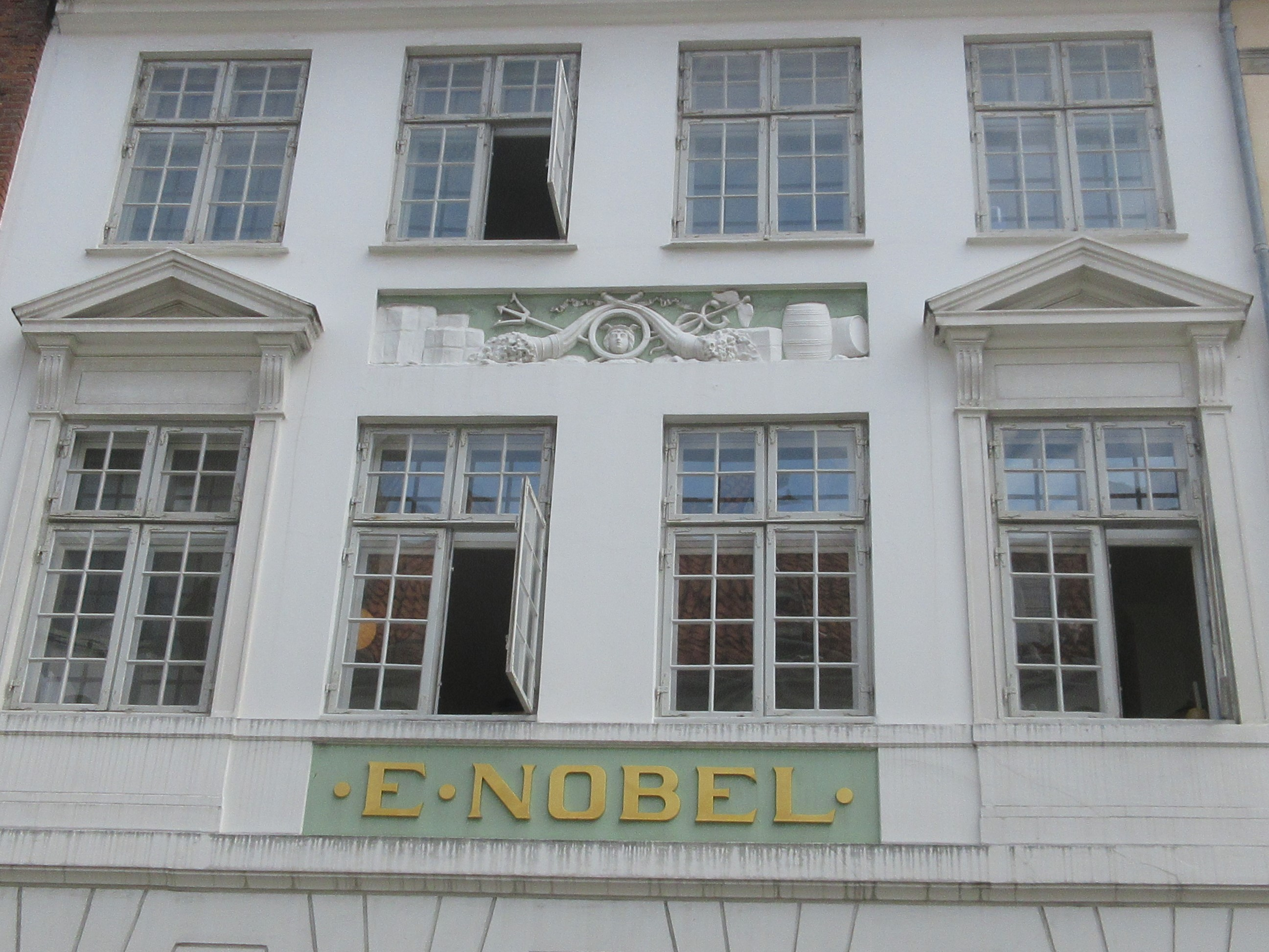 Vestergade 11 in Copenhagen, Denmark